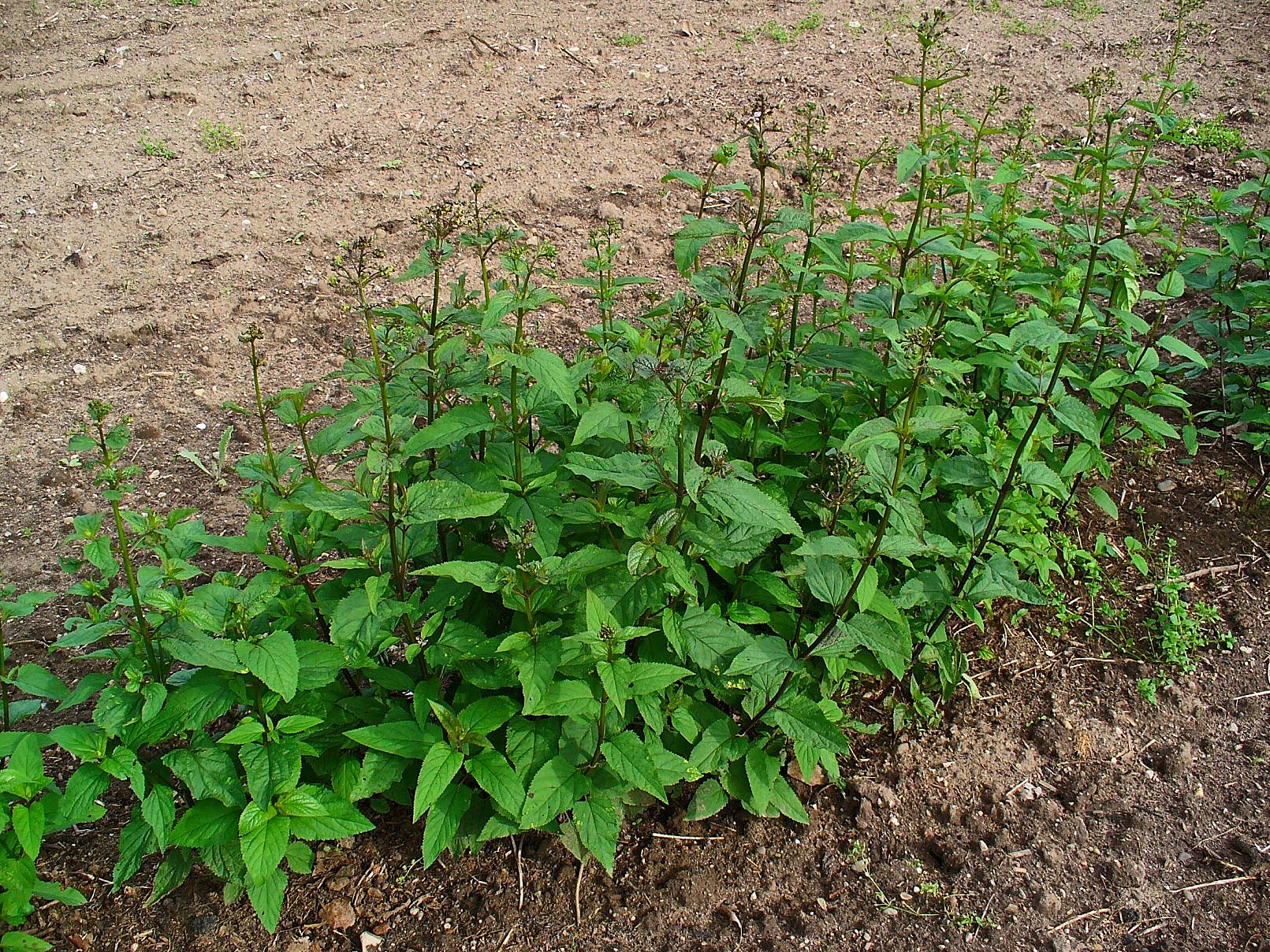 Scrophularia nodosa, Scrophulariaceae, Woodland Figwort, Common Figwort, habitus.